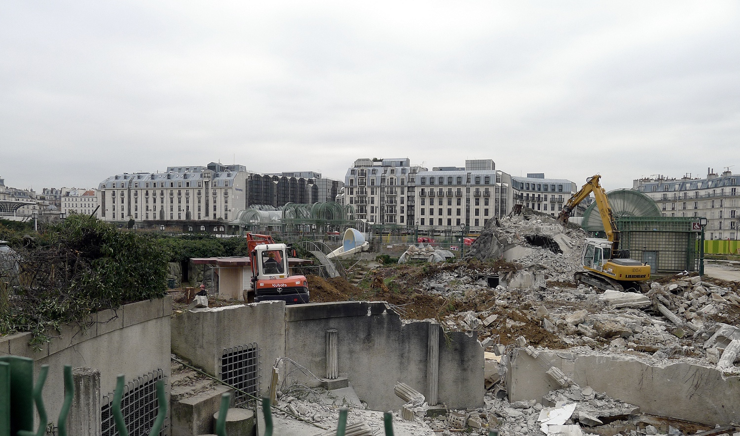 Les Halles - Paris